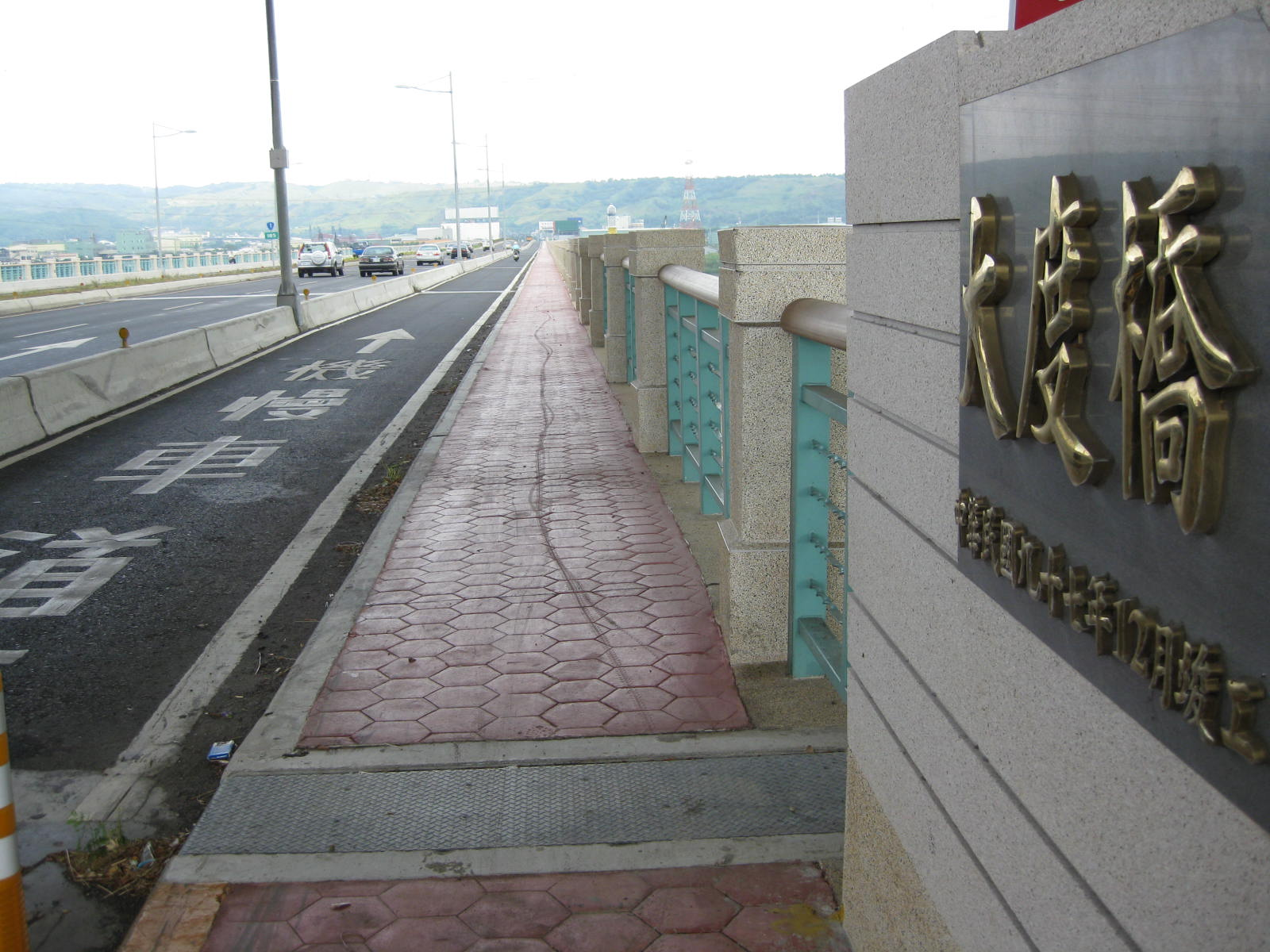 Dadu Bridge across the Dadu River between Changhua and Taichung,it finished in 2008.